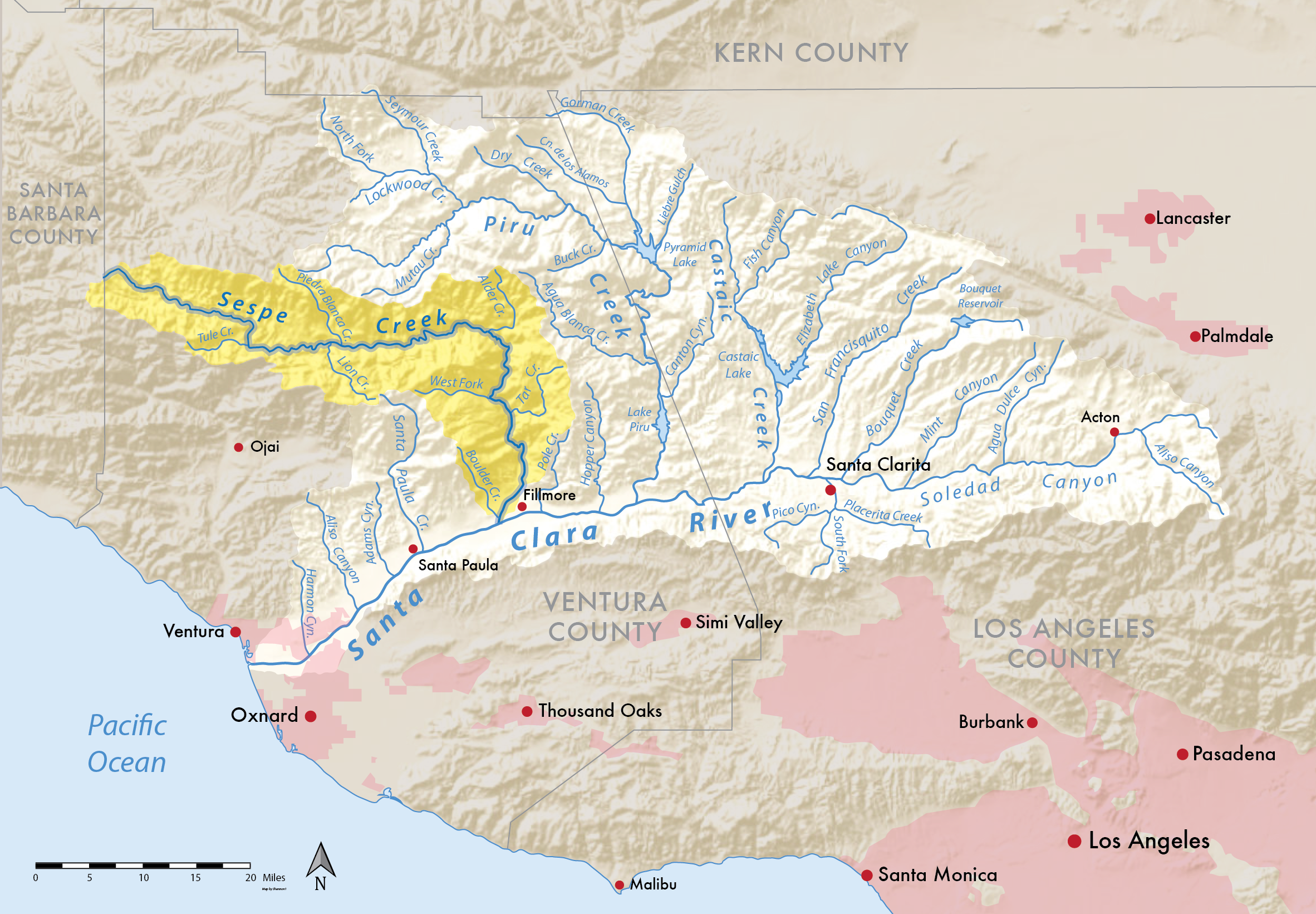 Map showing the Sespe Creek watershed in Southern California, highlighted in the Santa Clara River system. Shaded releif and watershed boundary data from USGS National Map (public domain).